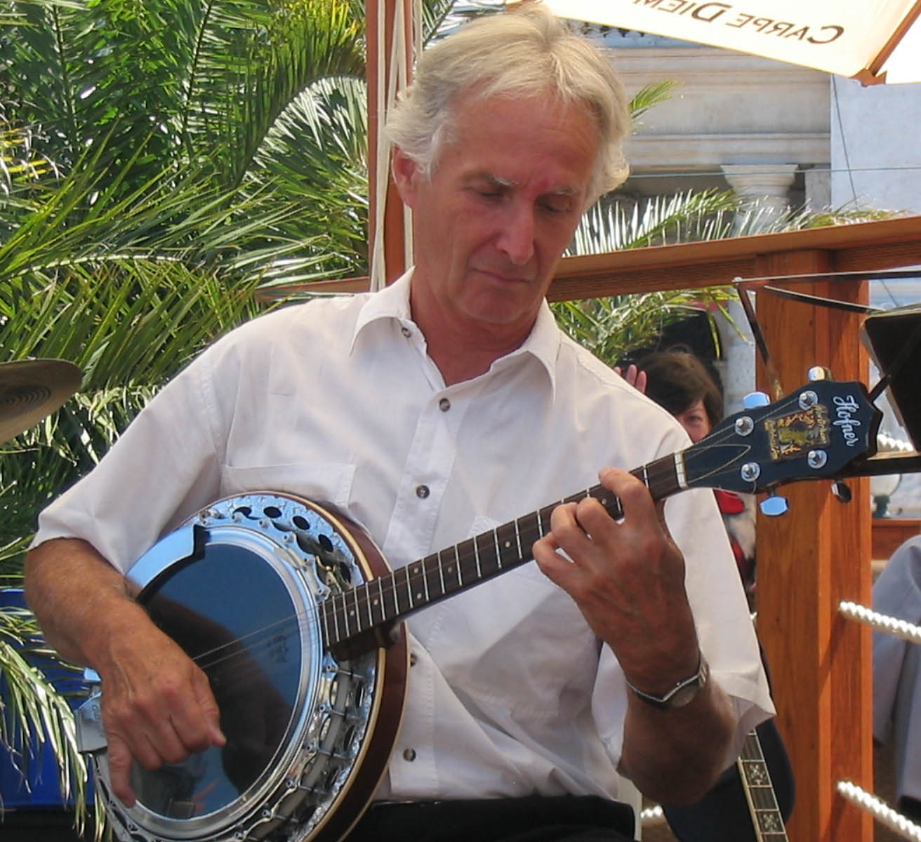 Members of Austrian jazz band Riverside Stompers (playing at the Vienna Rathausplatz). 5-string Banjo.